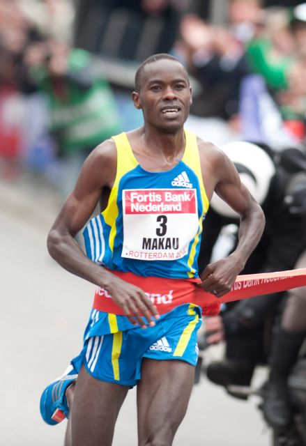 Патрик Макау на Роттердамском марафоне 2010 года